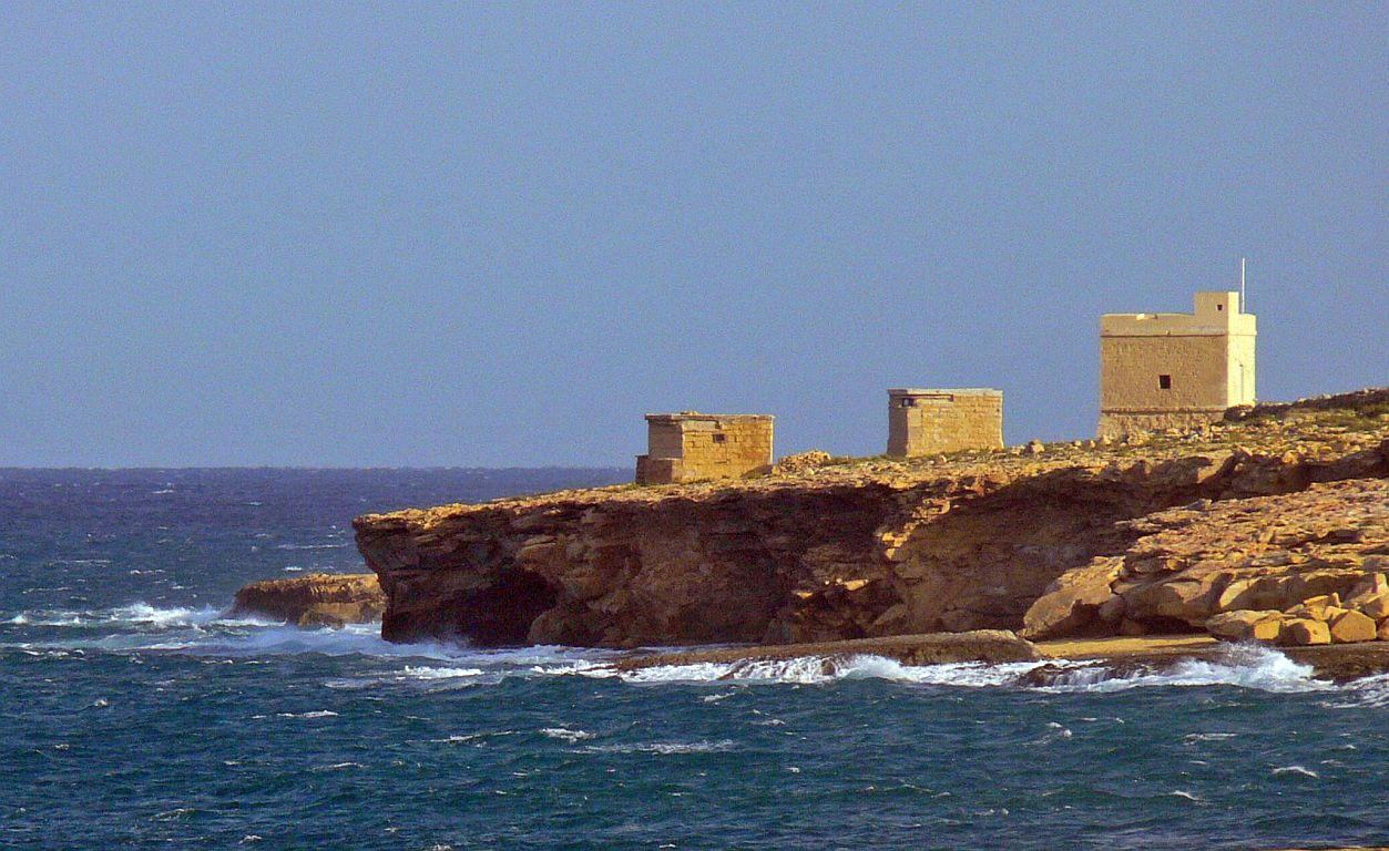 British coastal towers near Xgħajra, Malta